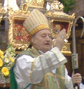 Giuseppe Merisi - Bishop of Lodi